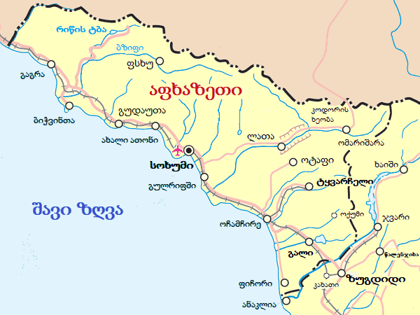 Map of Abkhazia. Modified by Iberieli Sources Primary: Secondary